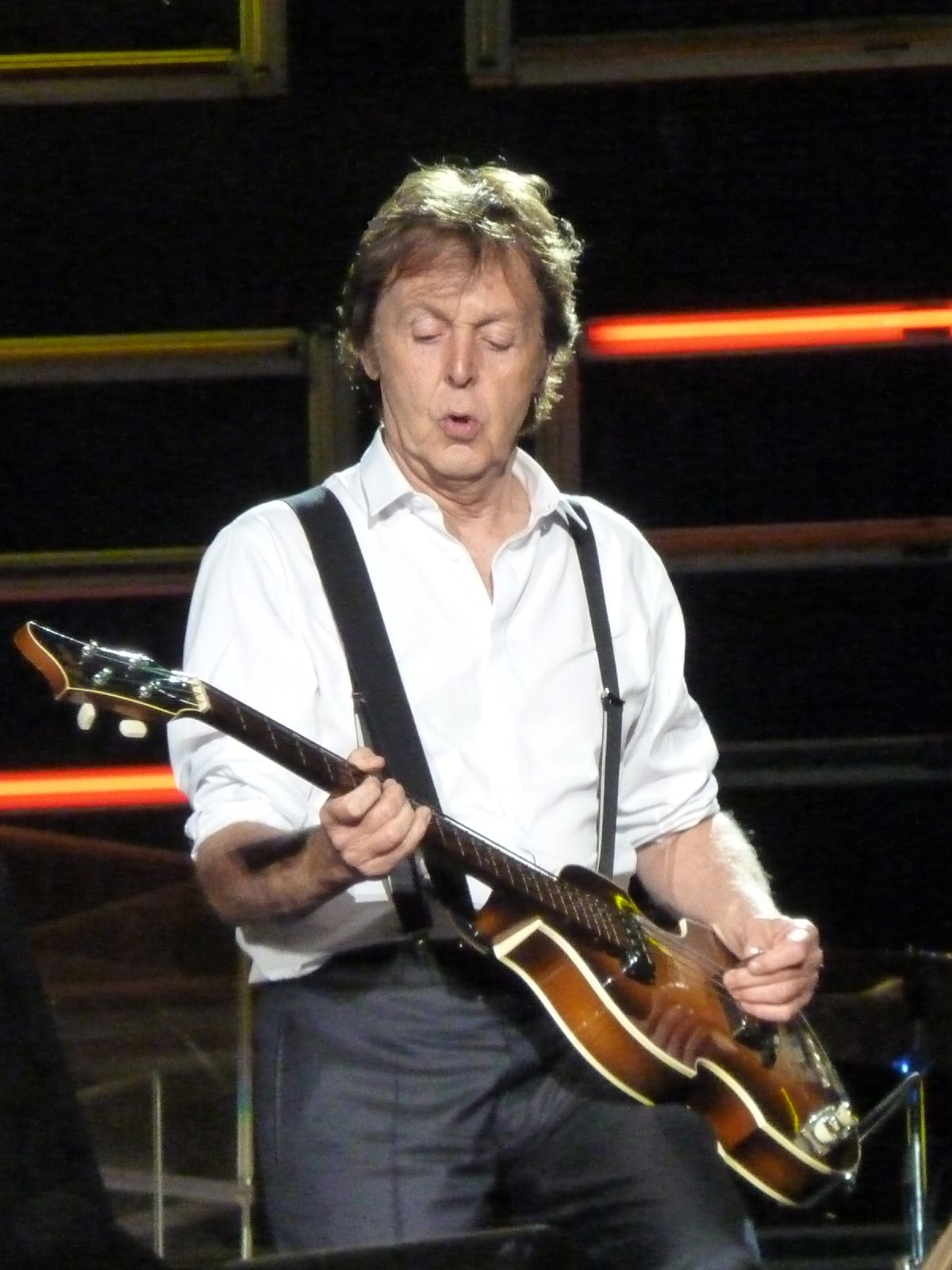 Paul McCartney performs in Dublin, Ireland on July 10, 2010